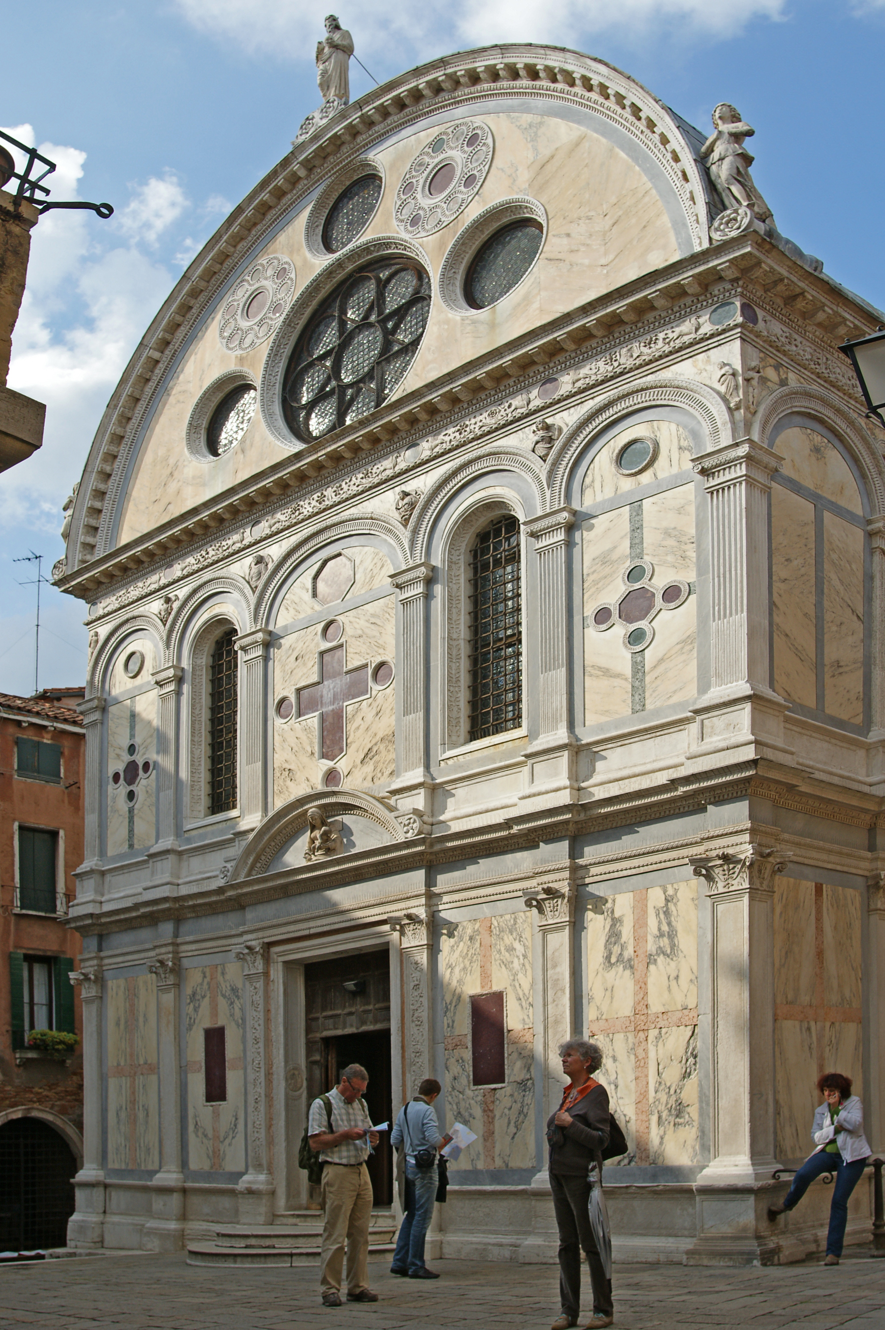 Church of Santa Maria dei Miracoli in Venice; facade.